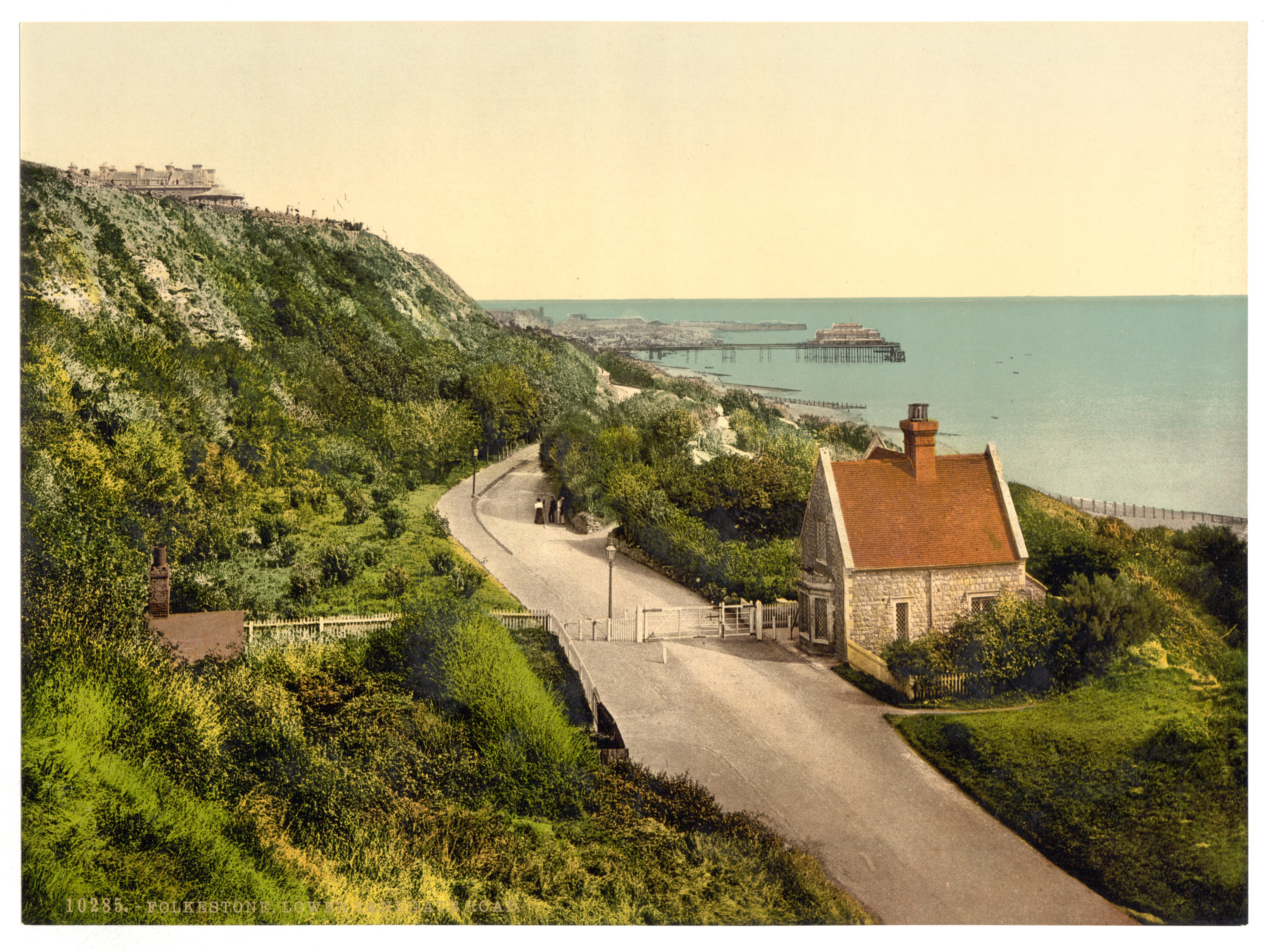 Forms part of: Views of the British Isles, in the Photochrom print collection.; More information about the Photochrom Print Collection is available at Title from the Detroit Publishing Co., Catalogue J-foreign section, Detroit, Mich. : Detroit Publishing Company, 1905.; Print no. "10285".